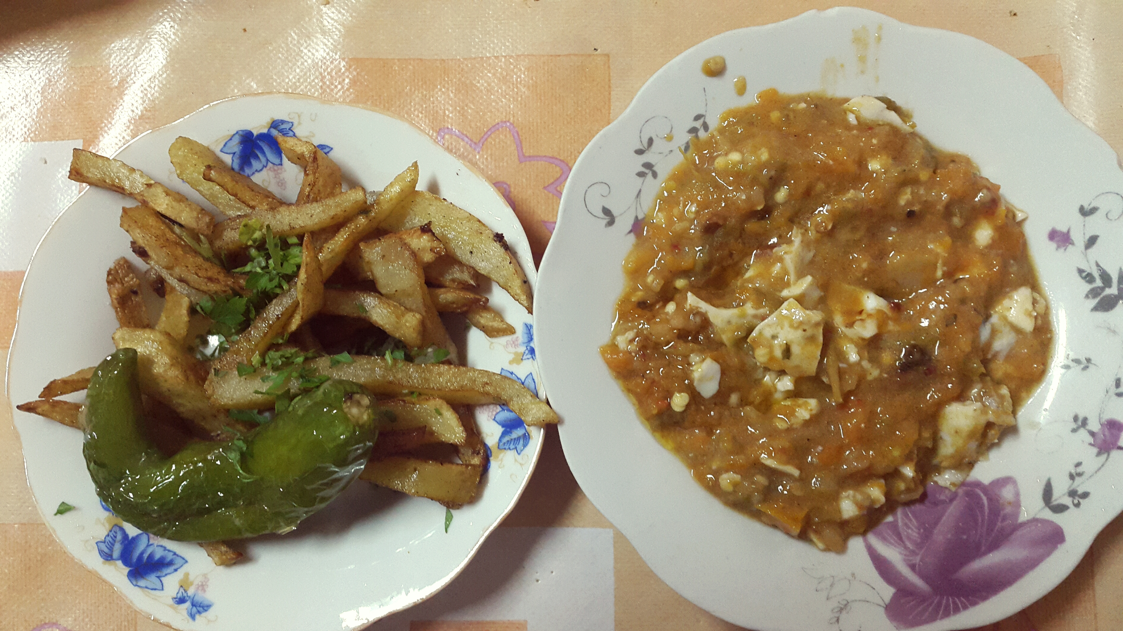 صحن كفتاجي This is an image of food from Tunisia